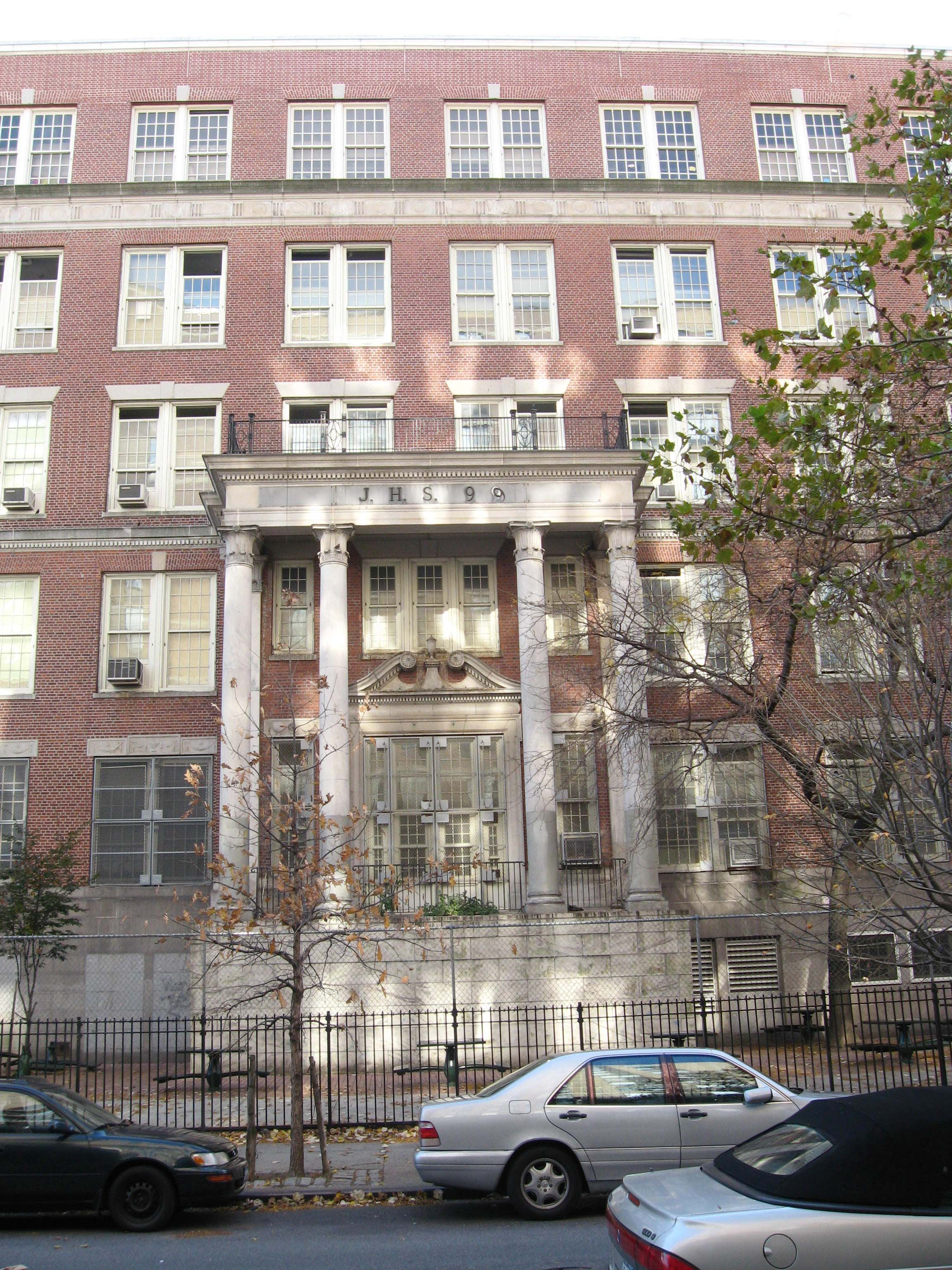 Looking south across E 100th Street at Junior High School 99 in East Harlem